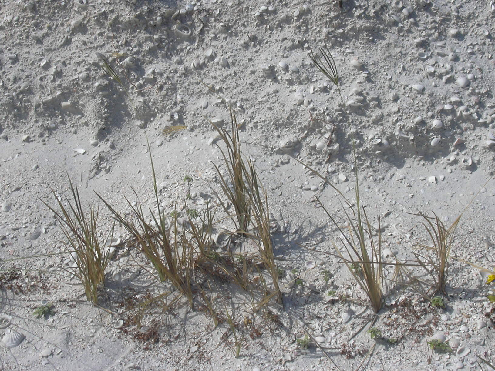 Eustachys petraea (habit). Location: Florida, Gasparilla